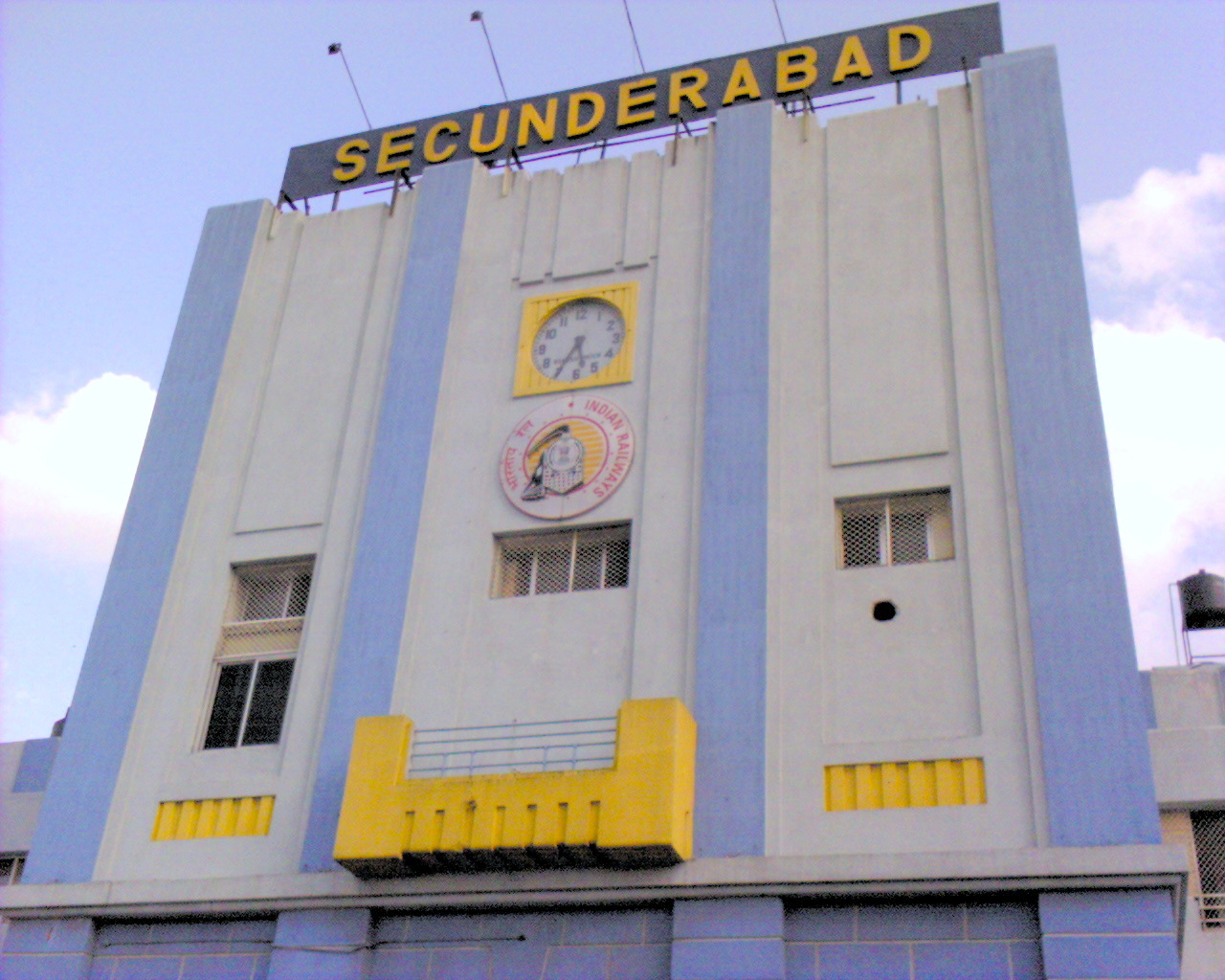 Closeup of Secunderabad Railway Station